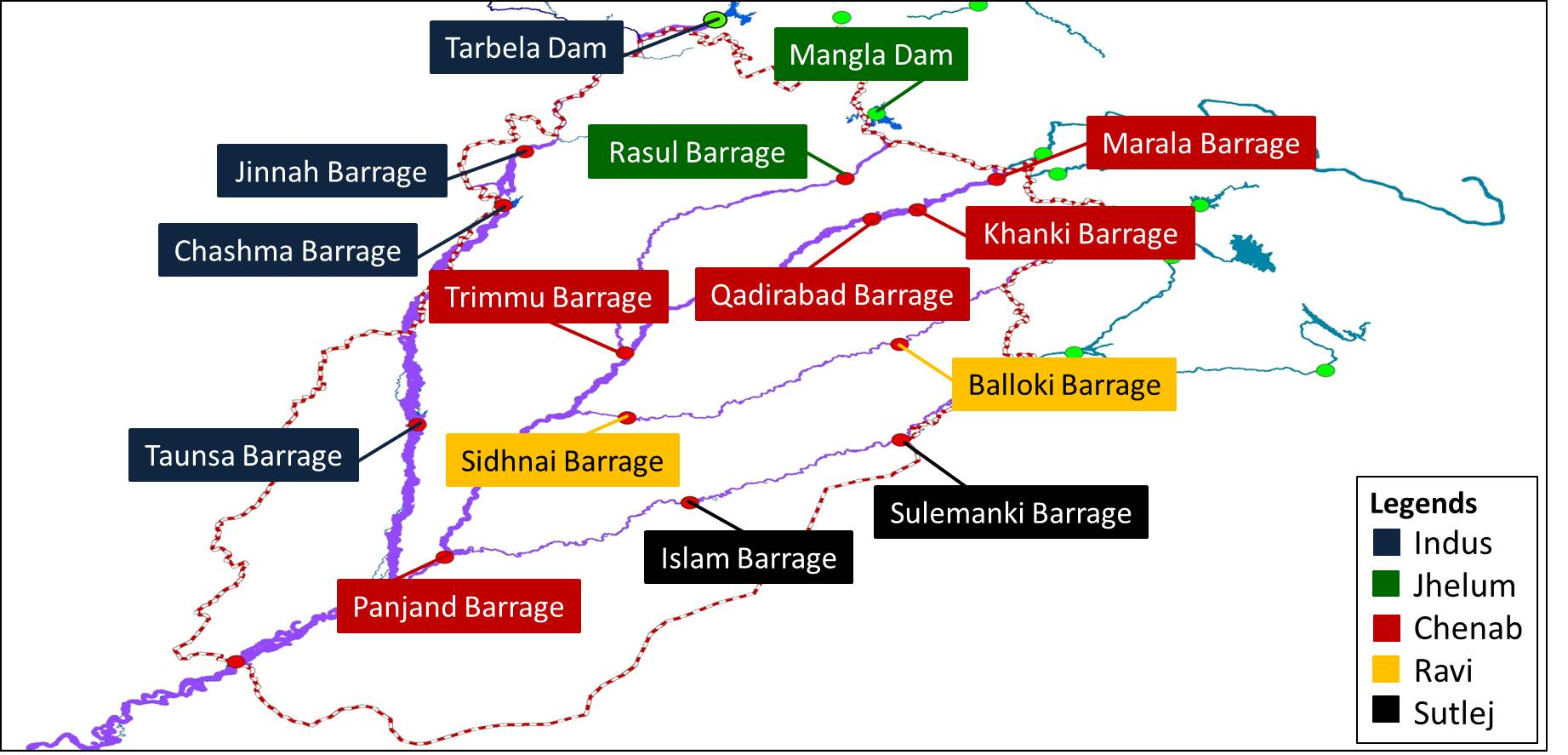 Main canals and barrages in Punjab's irrigation network